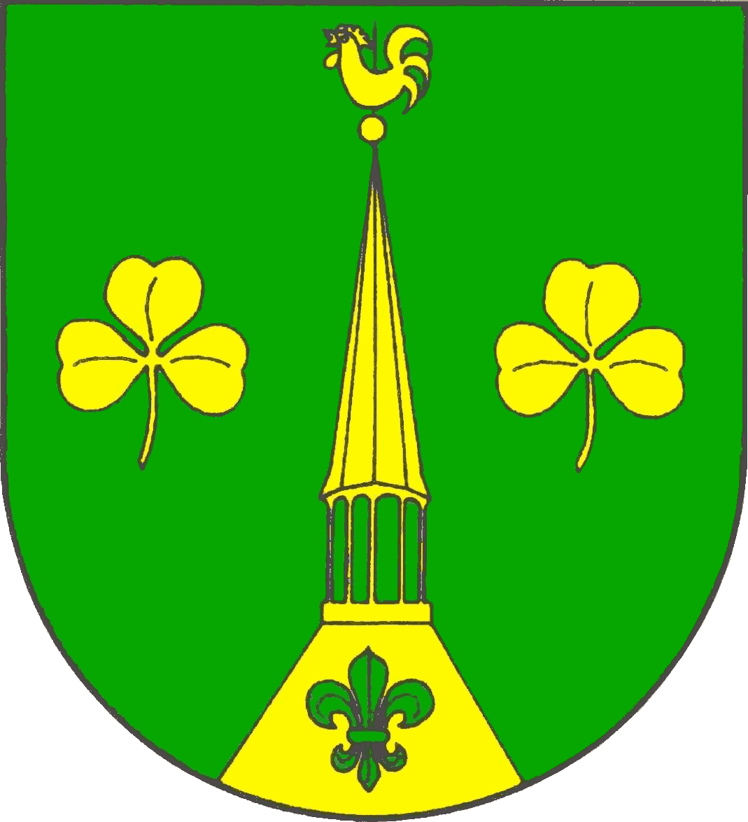 Coat of arms of the municipality Hürup in Schleswig-Holstein, Germany.